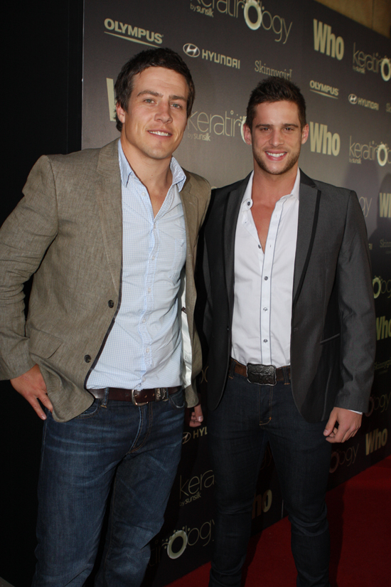 Actors Steve Peacocke and Dan Ewing at "Who Magazine's" Sexiest People Party; Great Hall At University of Sydney, Australia